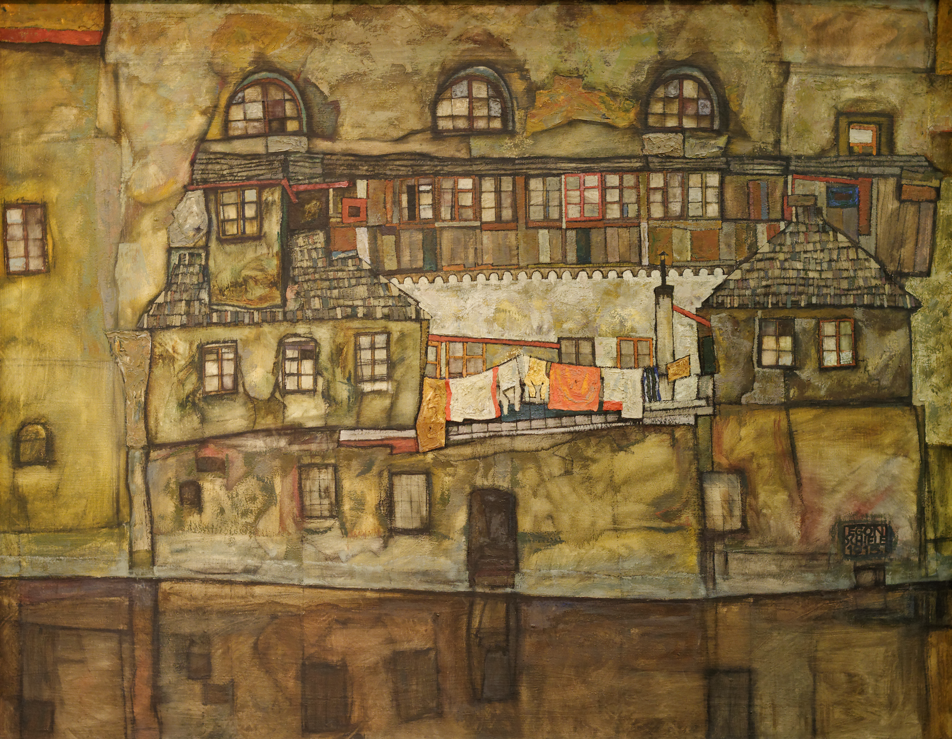 House Wall on the River. Egon Schiele, 1915. Leopold Museum collection. Inv.Nr 468